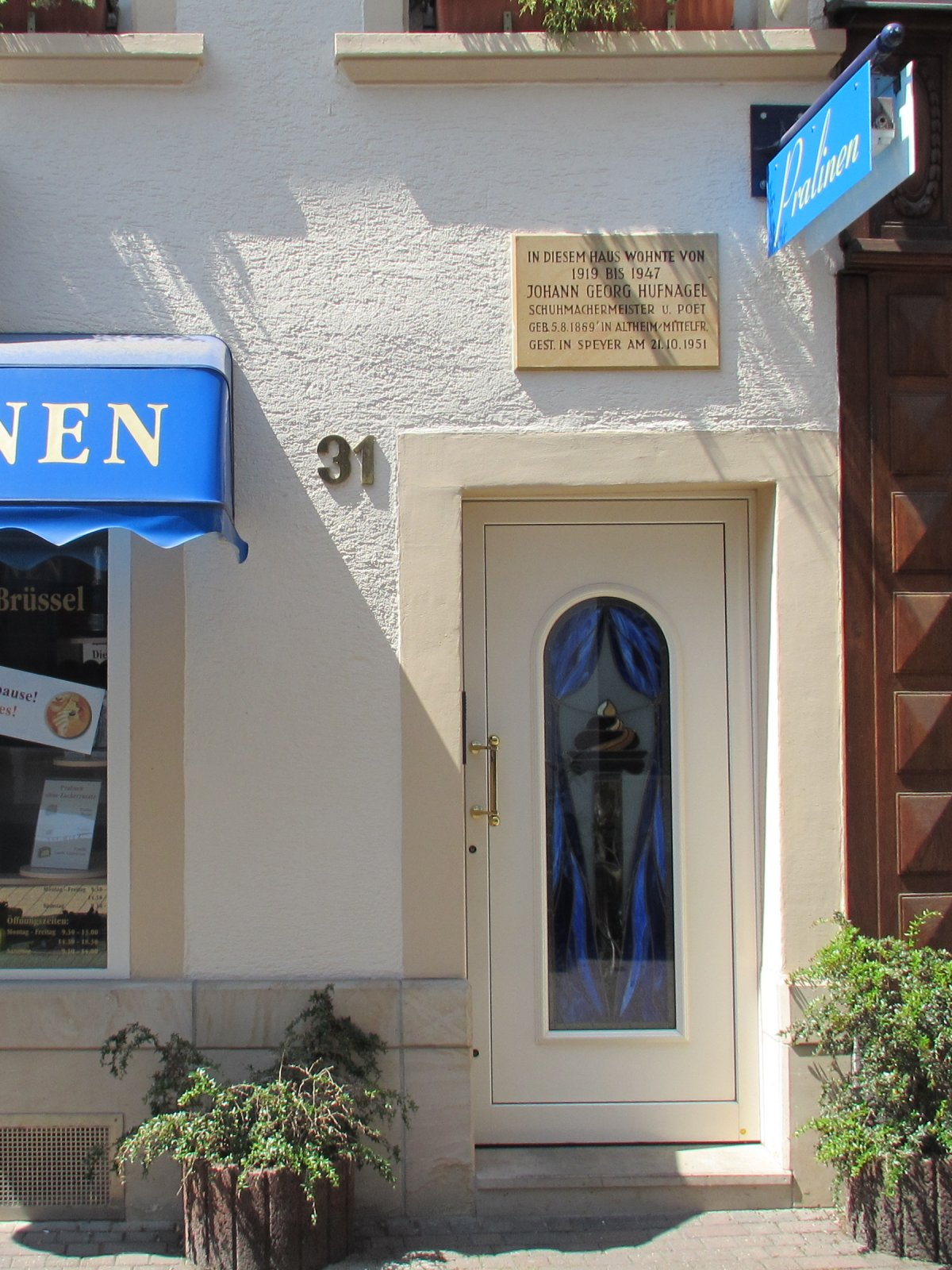 Memorial plaque on the house of Hufnagel in Speyer